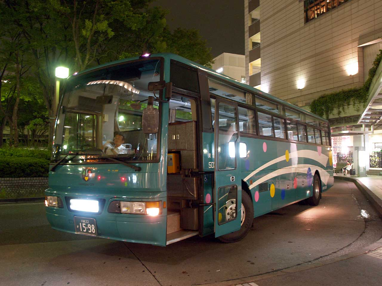 Kawasaki City Bus special route "Muza", arrived at Shin-Yurigaoka station. Fleet was operated as Tokyo Bay Aqua Line express bus. Model: Nissan Diesel KC-RA531RBN Body: Fuji Heavy Industries 7M "Maxion" License plate: KNK22 KA1598 Place: Shin-Yurigaoka station, Asao Ward, Kawasaki city, Kanagawa Japan